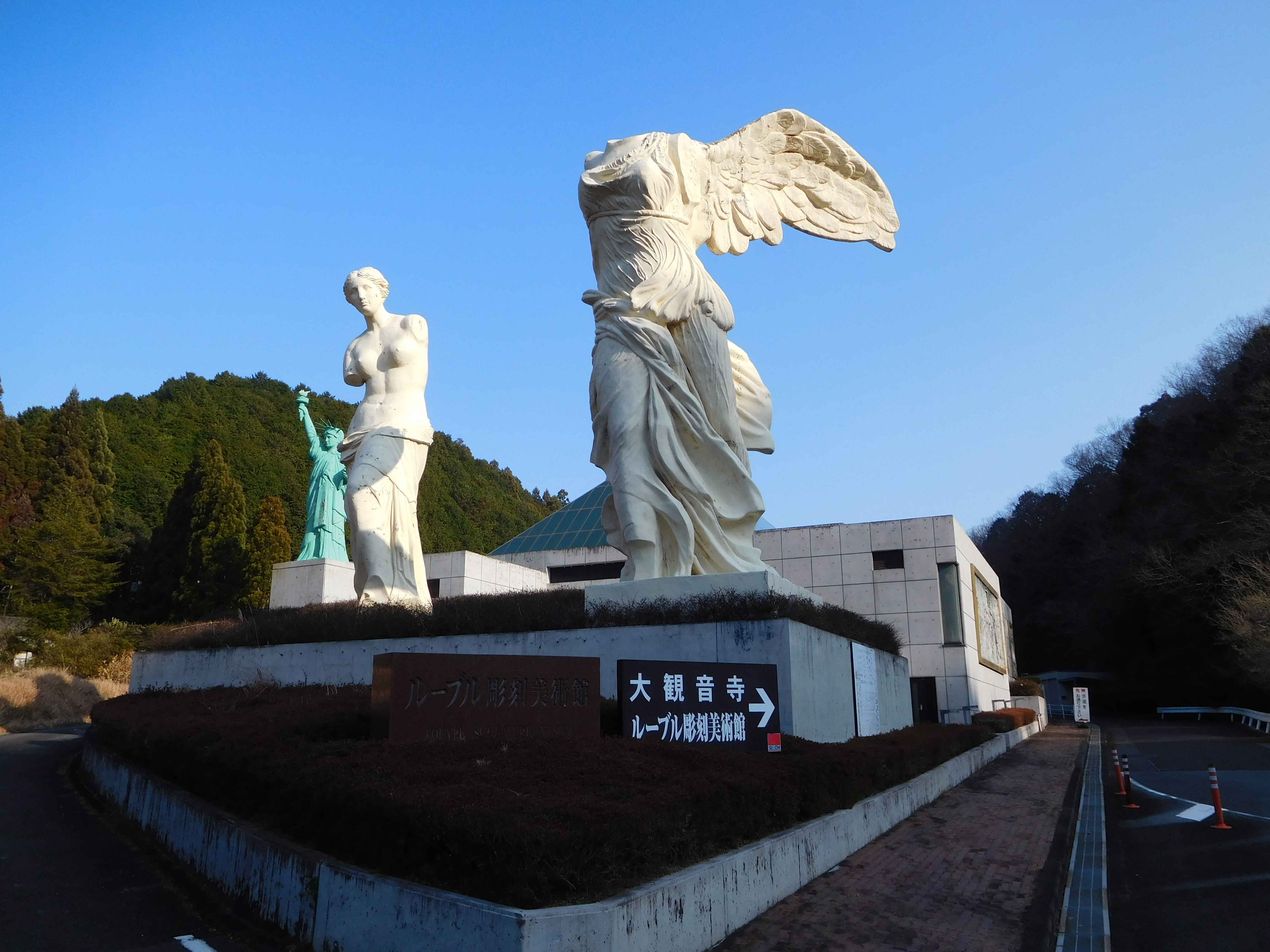 This is Louvre Sculpture Museum, which is located in Tsu, Mie, Japan.